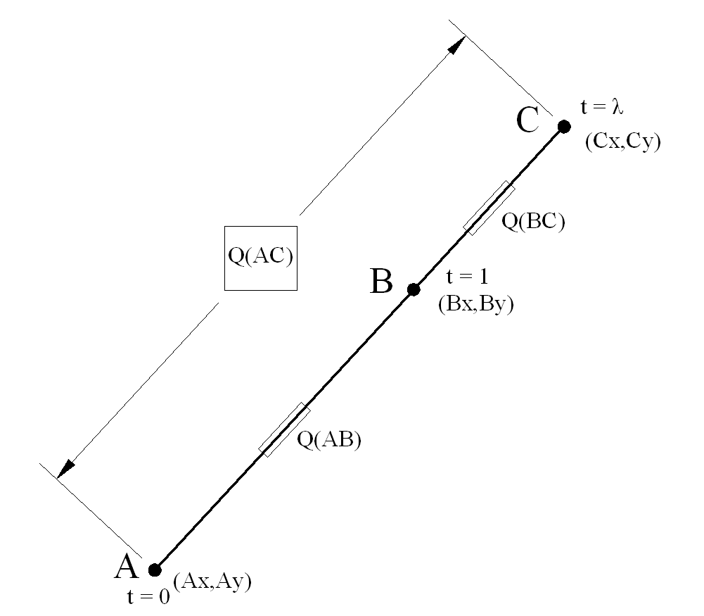 Diagram used to illustrate the proof of the rational trigonometry Triple Quad Formula. Generated from an AutoCAD drawing drawn by Derrick Oswald.